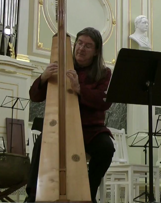 Andrew Lawrence-King at St. Petersburg Court Chapel Early Music Festival.